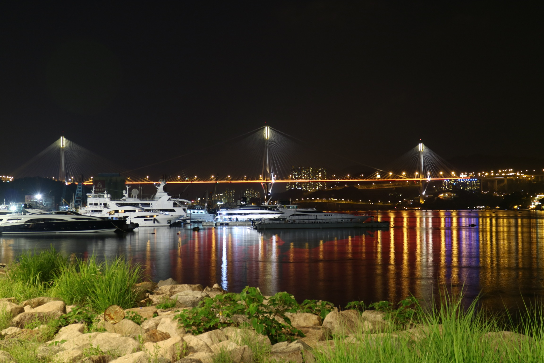 You can see Ting Kau Bridge at Tsing Yi Northeast Park.